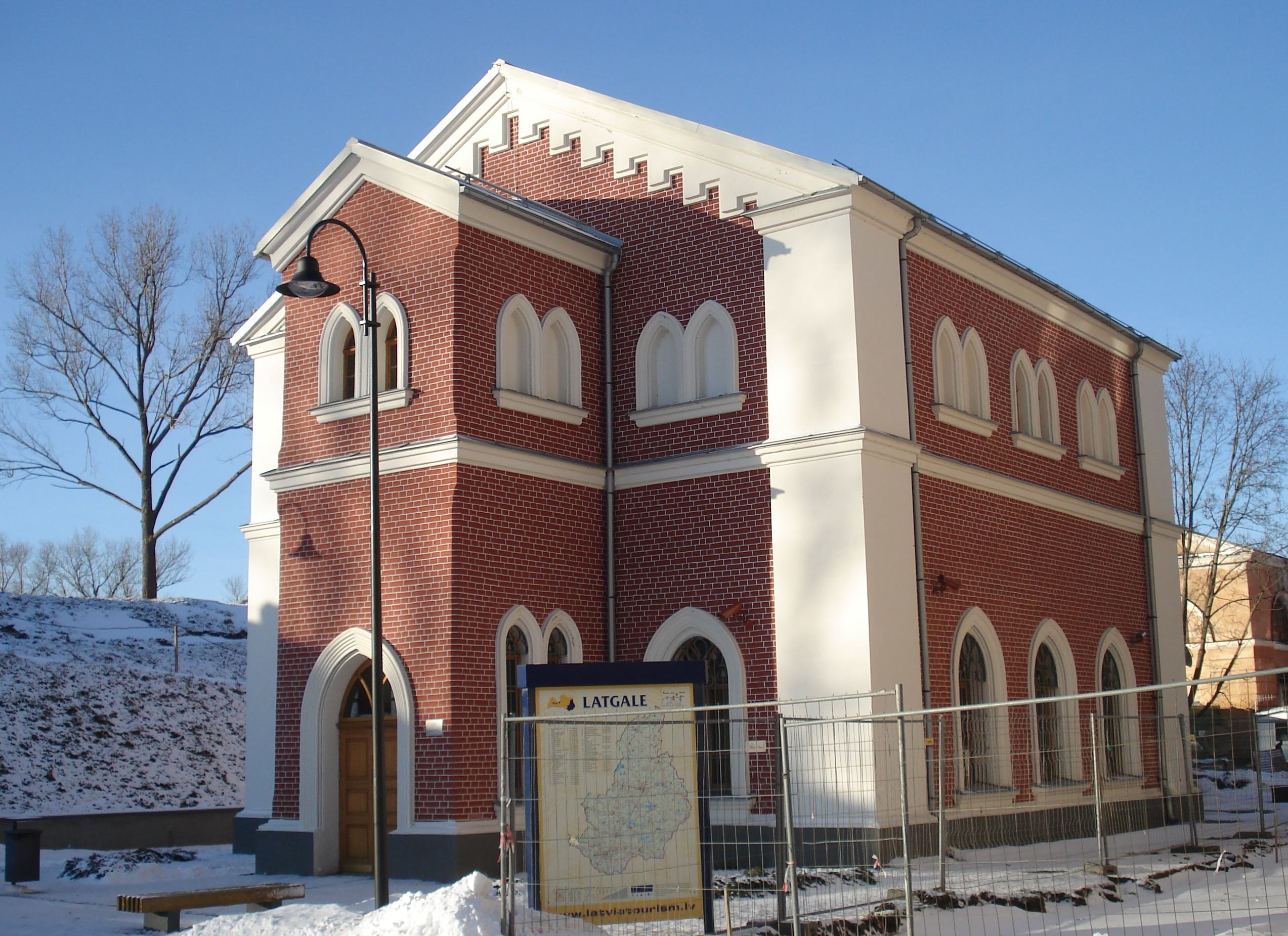 Daugavpils fortress's pump house